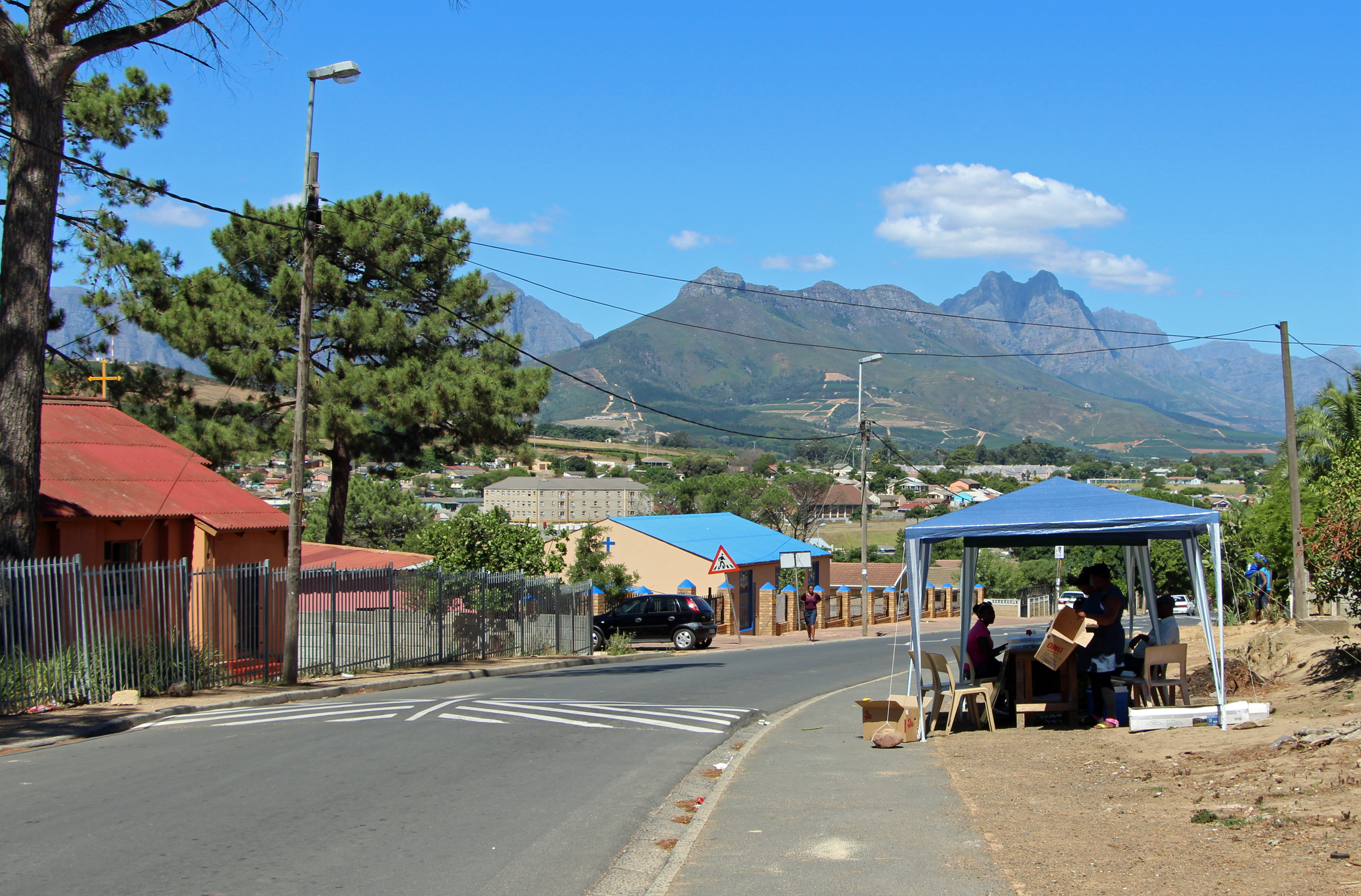 ANC table at final voter registration weekend, St Johns Anglican Church, Kayamandi